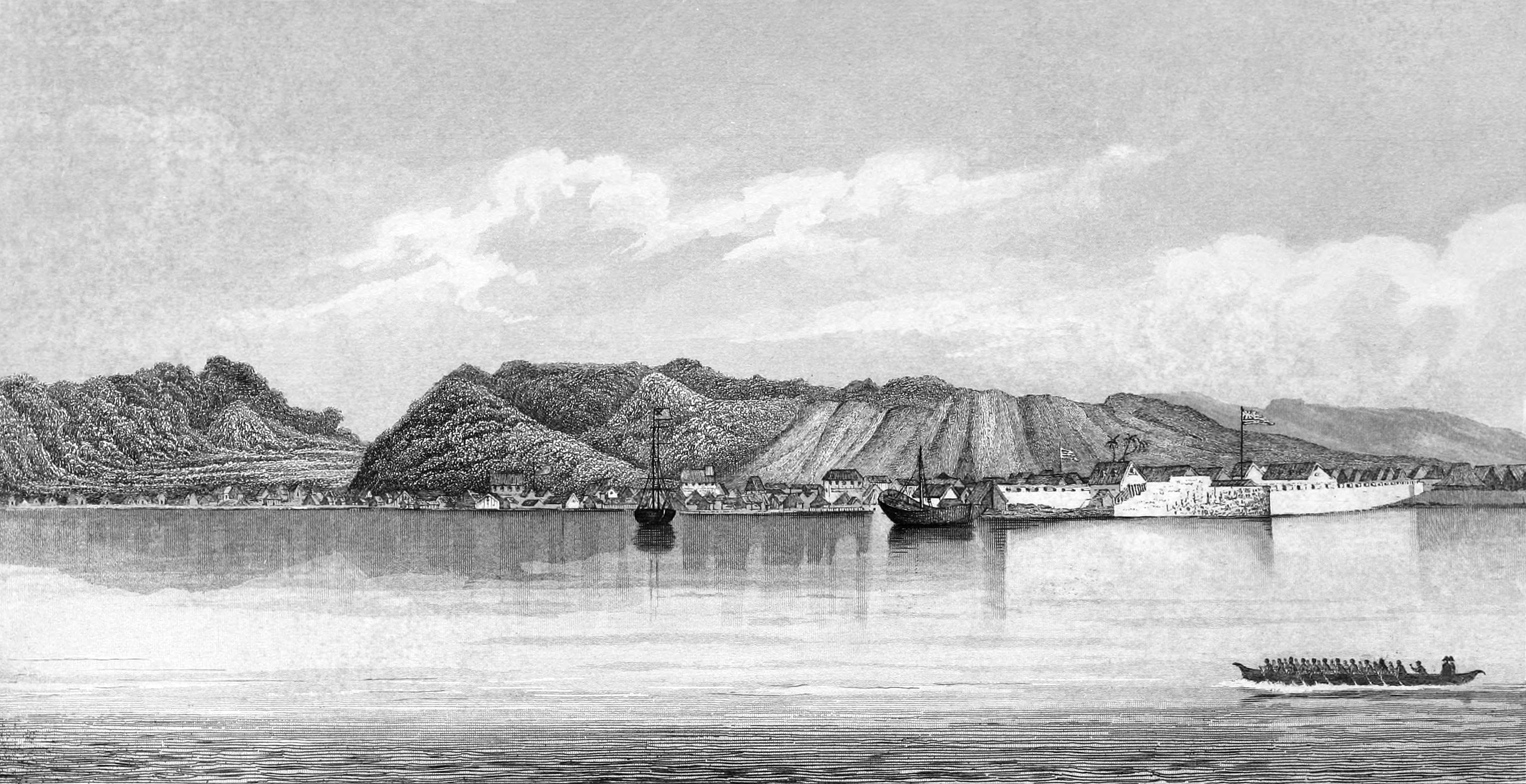 View of Honolulu, Oahu, Sandwich Islands. Described as one of the most attractive of all nineteenth-century views of Honolulu. The fort is prominently featured in the right middle ground, with ships at anchor and Punchbowl in the distance. At the right is Nuuanu valley.